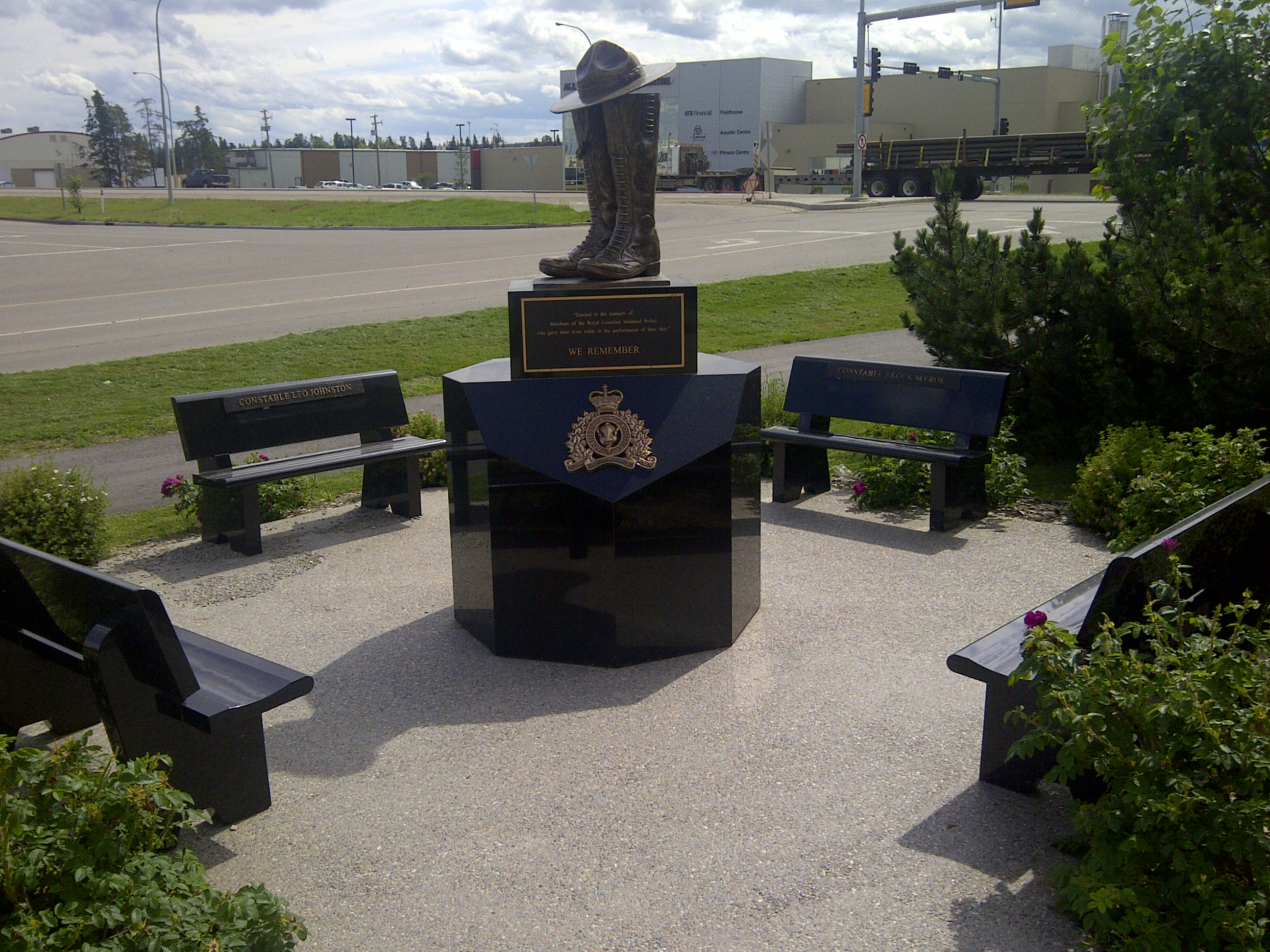 "We Remember" is a bronze statue outside the Whitecourt RCMP detachment honouring the fallen four from the Mayerthorpe tragedy – Constable Anthony Gordon was stationed in Whitecourt